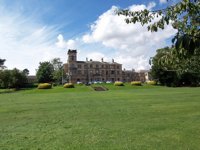 Tranby Croft, Anlaby, East Riding of Yorkshire, England.Tranby Croft, now home to Hull Collegiate School, was the scene of the famous 1890 Royal Baccarat Scandal involving the Prince of Wales. It is a listed building - see Historic England List record Link